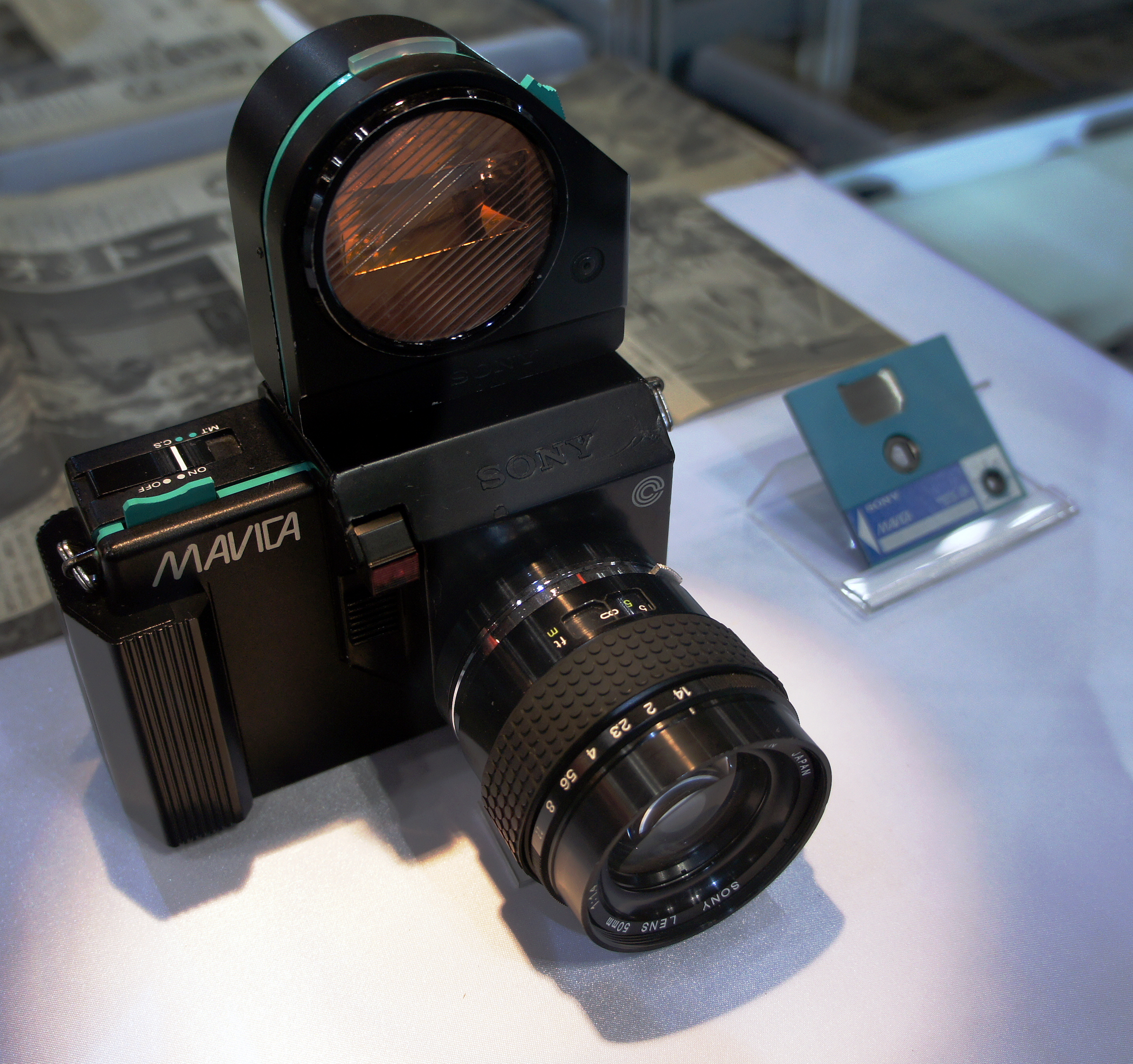 CP+ 2011: 1981 Sony Mavica prototype